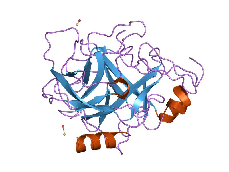 Cartoon representation of the molecular structure of protein registered with 1gl0 code.